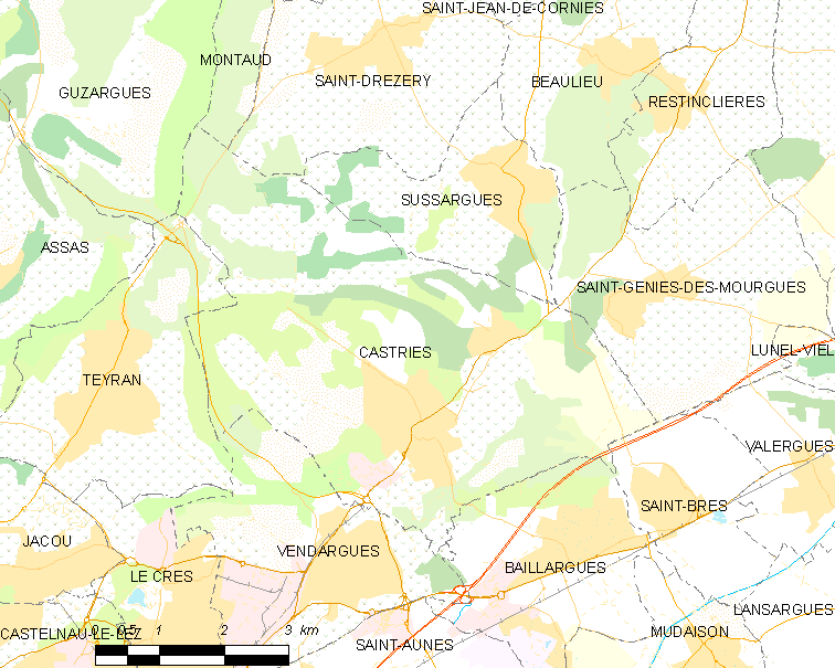 Map commune FR insee code 34058.png - Castries (Hérault)